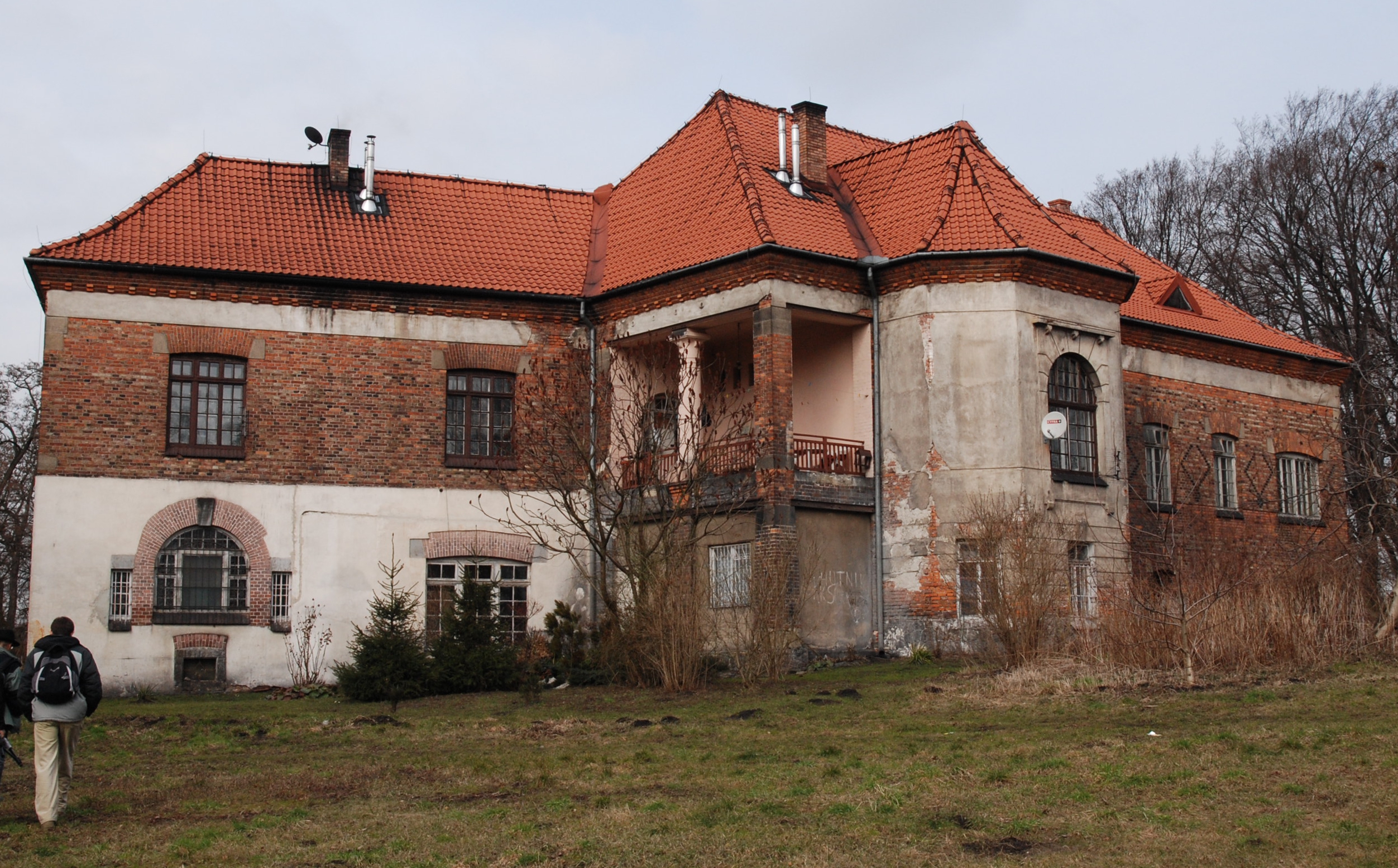 Manor house in Łuczanowice, Kraków, Poland.